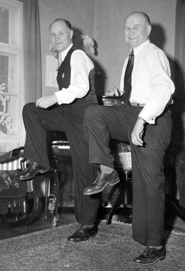 Paavo Nurmi and Hannes Kolehmainen at Kolehmainen's 60th birthday party in 1949.